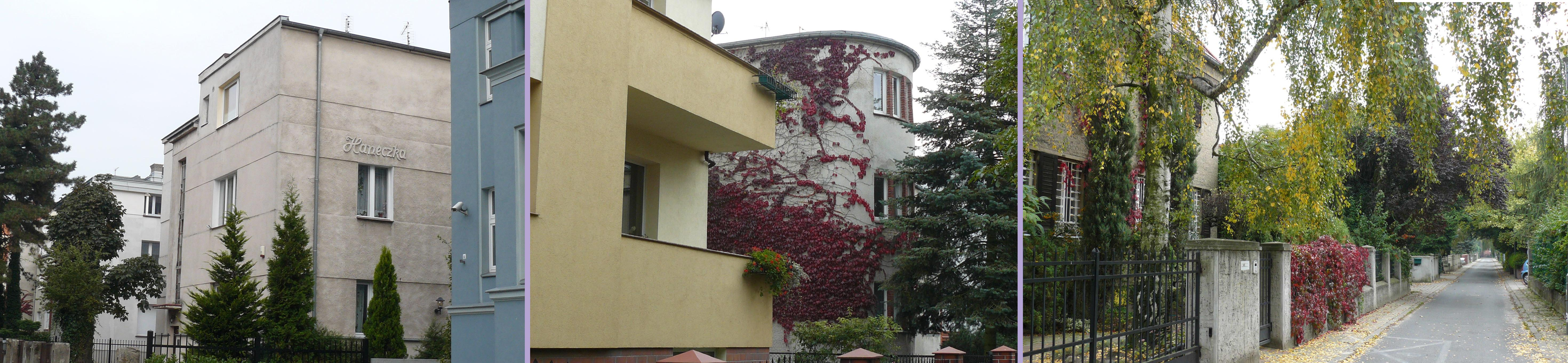 Zakret Street, Poznan.